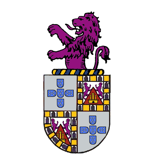 Coat of Arms of the Portugal Noronha